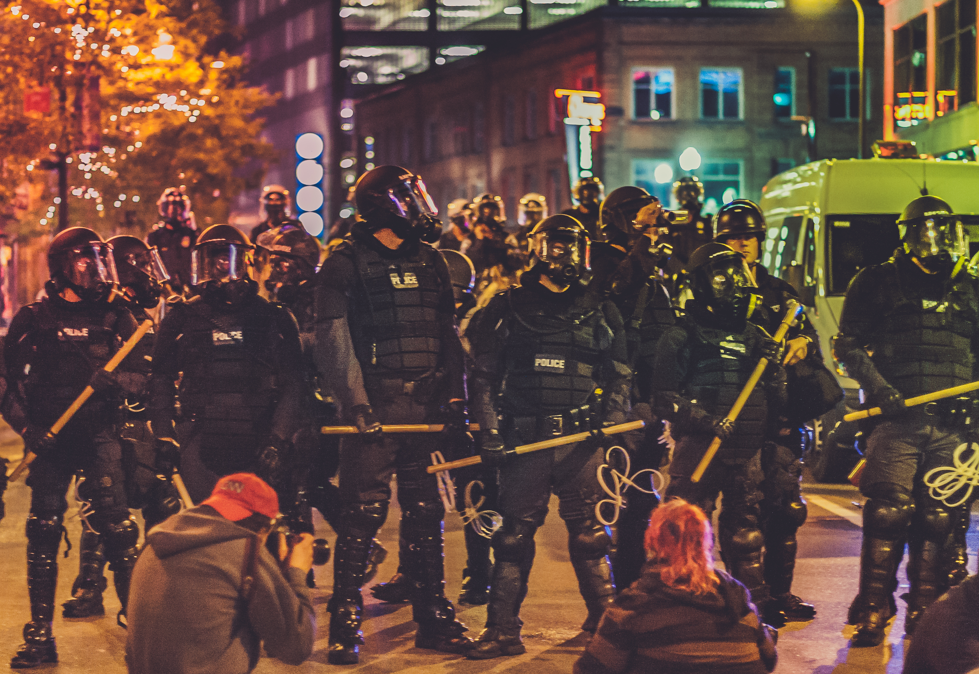 Protest demonstrators sit in front of Minneapolis police officers dressed in riot gear during the 2008 Republican National Convention, following a Rage Against the Machine concert at the Target Center. 3 Sep 2008.